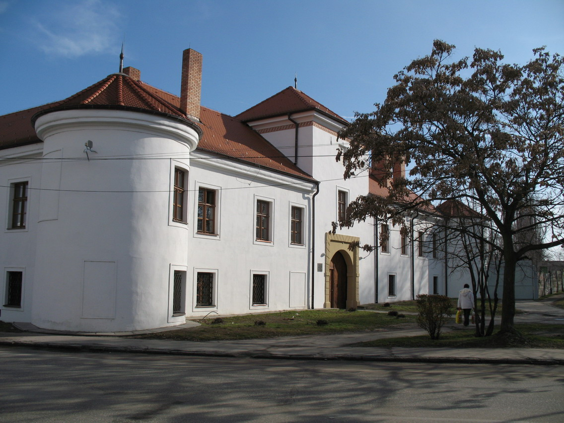 Photo of the castle (archives) in Šaľa